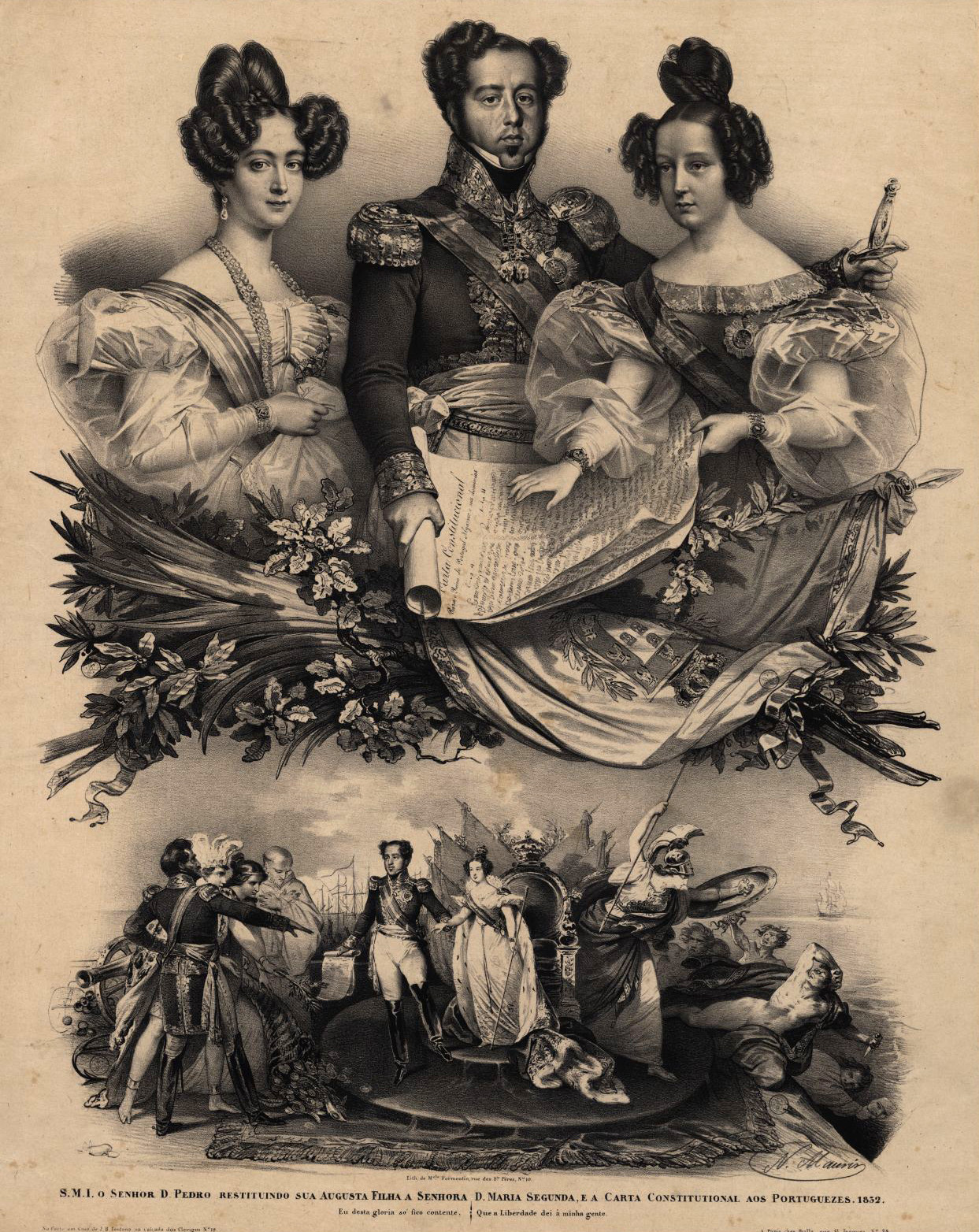 S.M.I. o Senhor D. Pedro restituindo sua Augusta Filha a Senhora D. Maria Segunda e a Carta Constitucional aos Portugueses, 1832 (Peter I with his daughter D. Maria II and the Portuguese Constitution of 1826 - lithography).